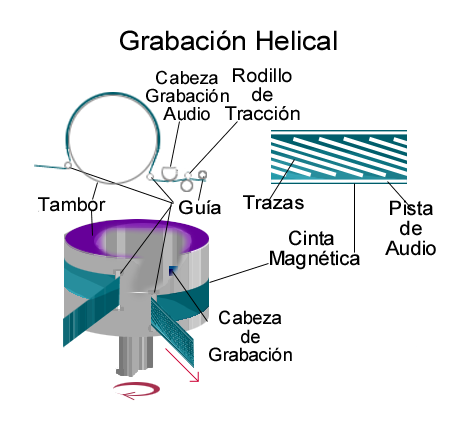 Transverse Method recording, can see the inclined plans recorded by the revolving motion of the drum on the magnetic tape. One of the first equipment that used this method was video recorder Sony V-21-90 in 1962 for the Professional market.